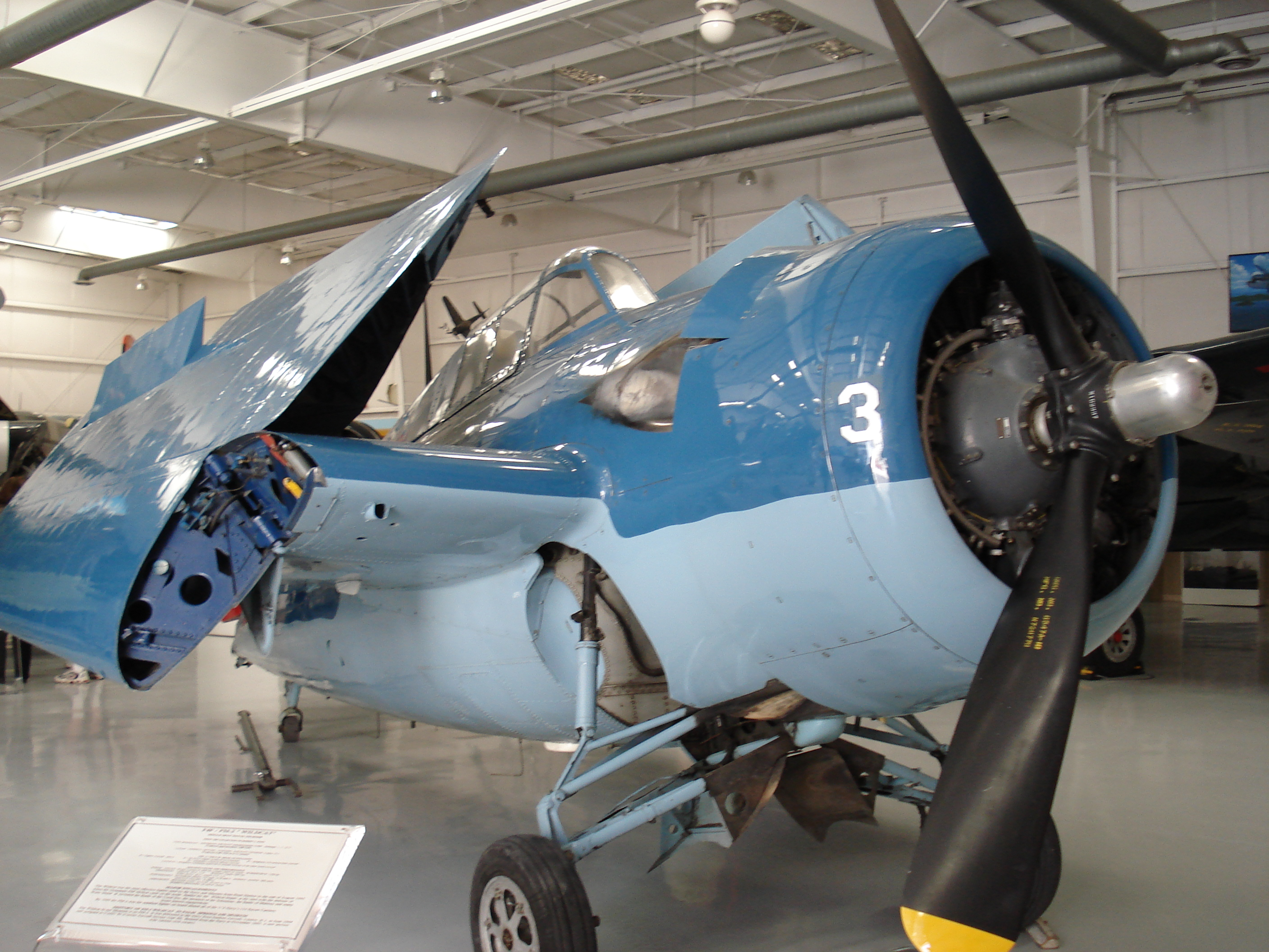 F4F Wildcat